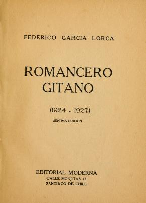 Romancero gitano seventh edition